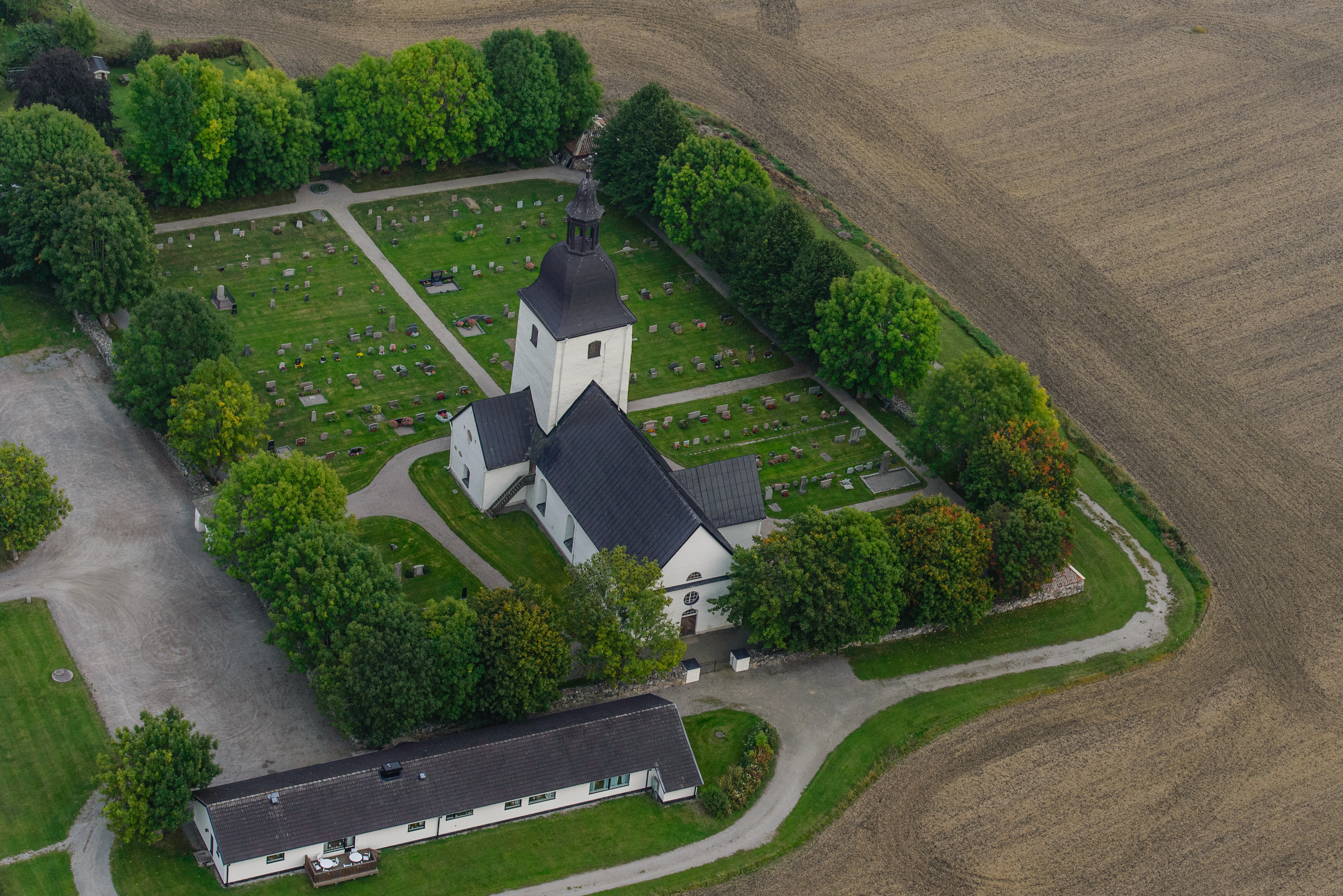 Färentuna kyrka (church).